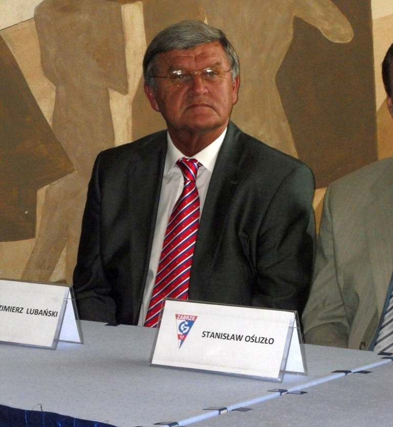 Włodzimierz Lubański, Polish football player.